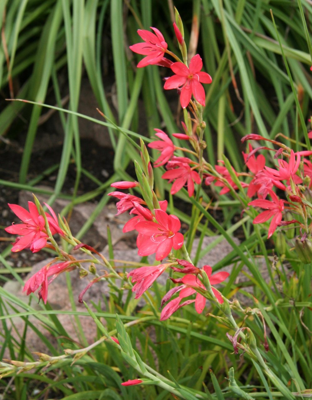 Schizostylis coccinea